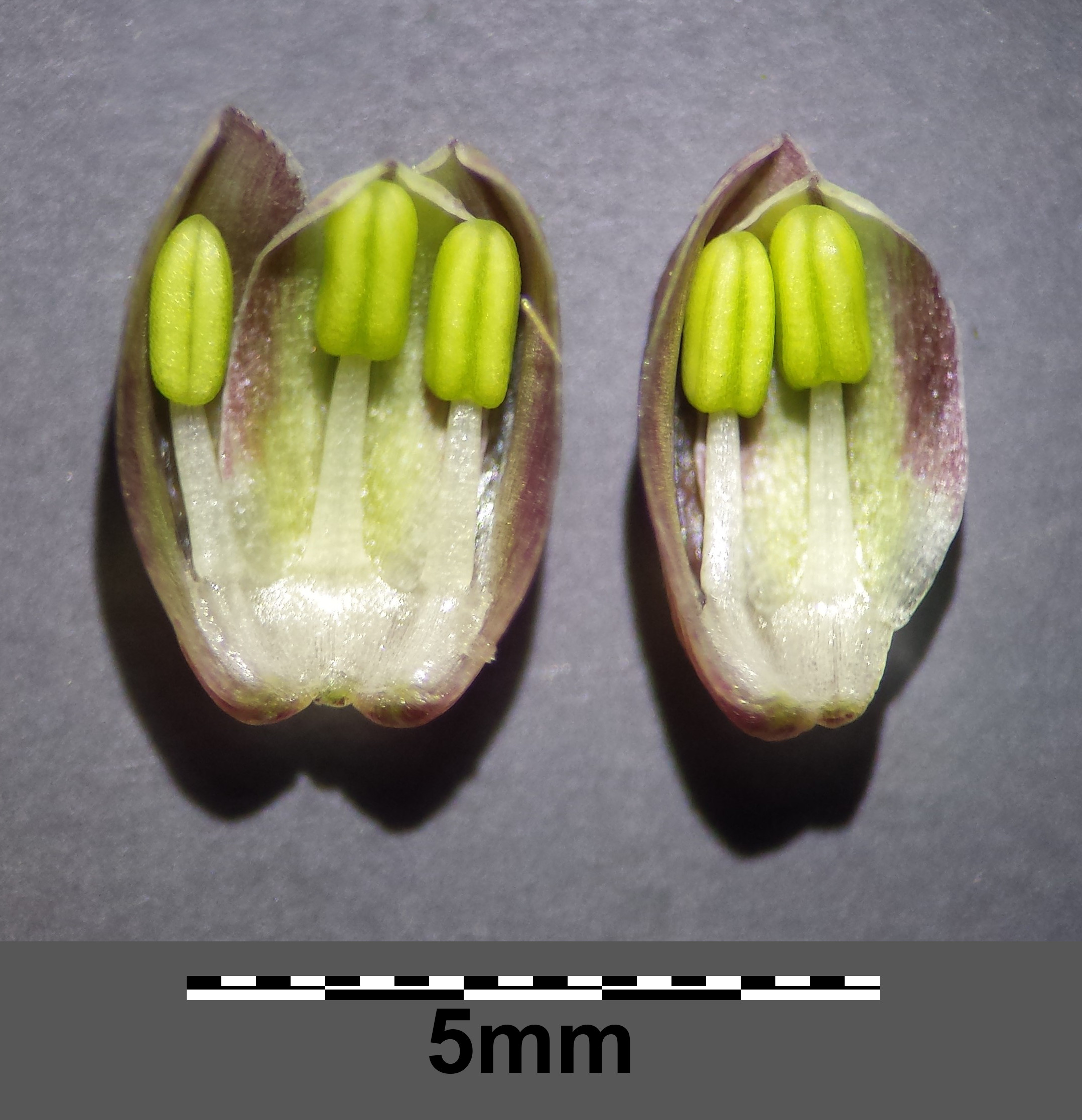 Perigone leaves with stamen (inner view) Taxonym: Allium oleraceum ss Fischer et al. EfÖLS 2008 ISBN 978-3-85474-187-9 Location: Neue Donau, Vienna-Floridsdorf - ca. 160 m a.s.l. Habitat: dry meadows